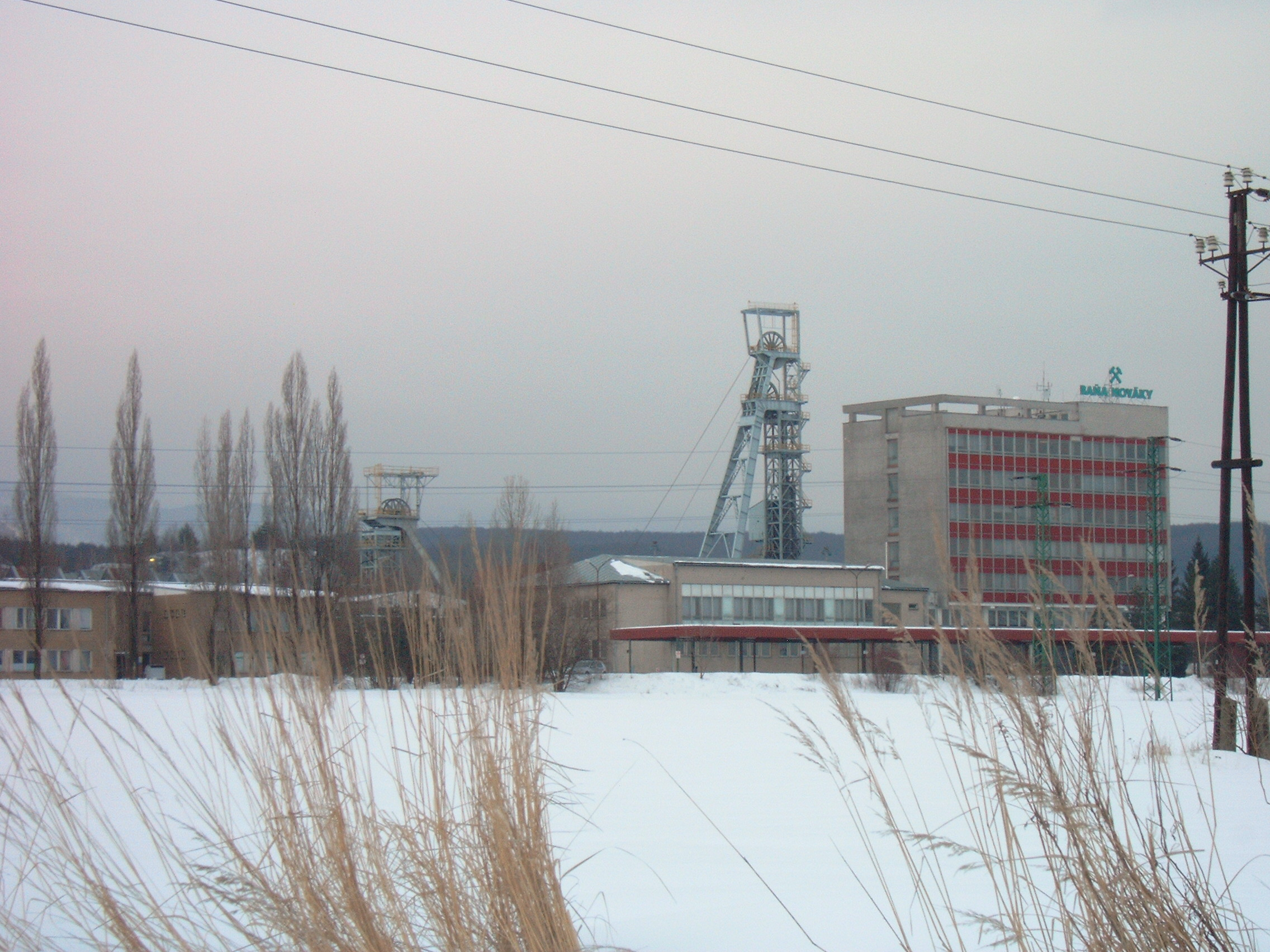 This image shows the Nováky-mine, a brown-coal underground mine in Nováky in Slovakia.